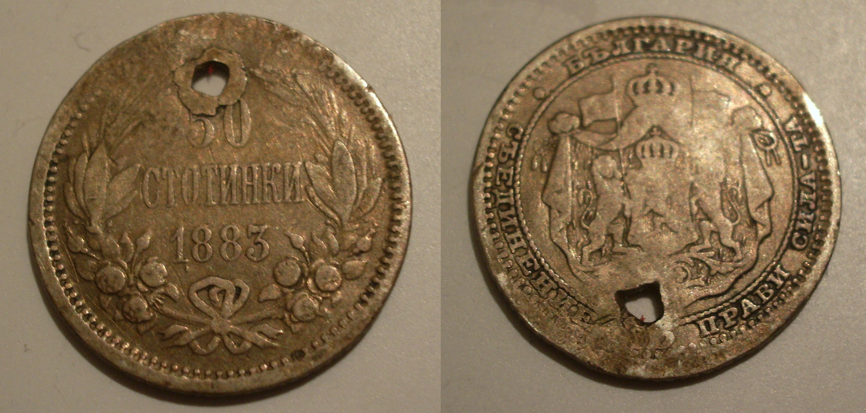 An 1883 Bulgarian coin. The coin has been punched at the top in order to be used as a an ornament to a necklace.